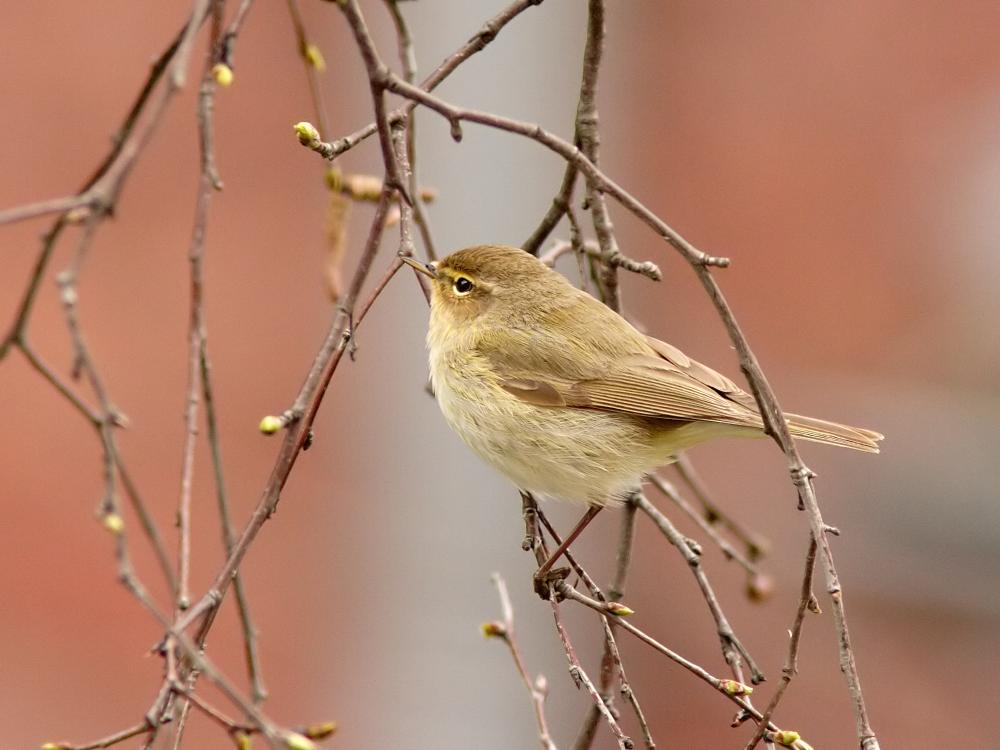 A chiffchaff in a birch tree.